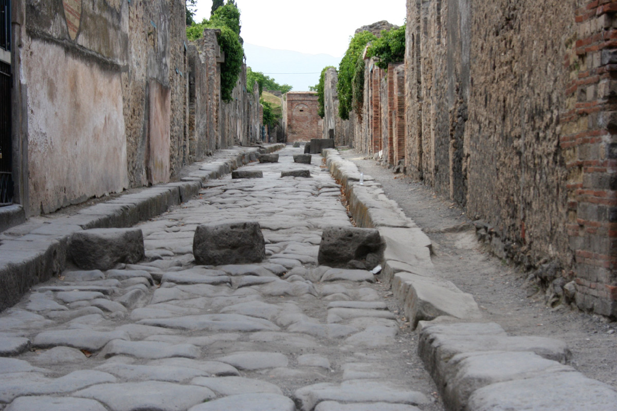 Pompeii Waterway. Notice the stepping stones placed periodically across the waterway.